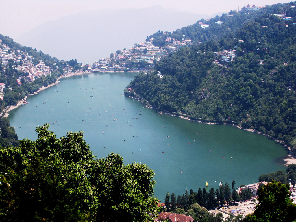 Nainital at lake view point, Nainital, Uttrakhand